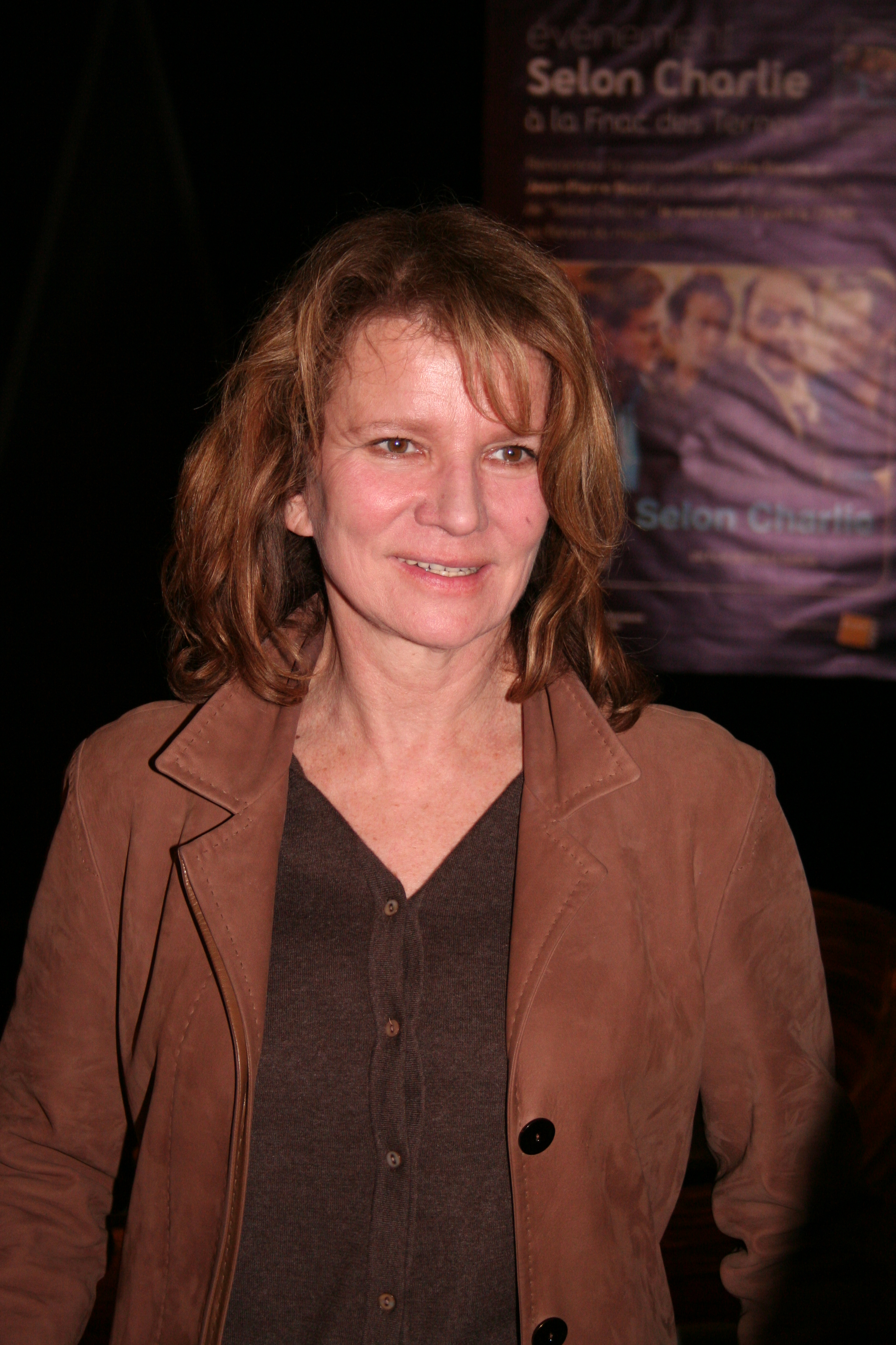 Meet-up with the film-maker Nicole Garcia and Jean-Pierre Bacri, for the release of the film Selon Charlie.